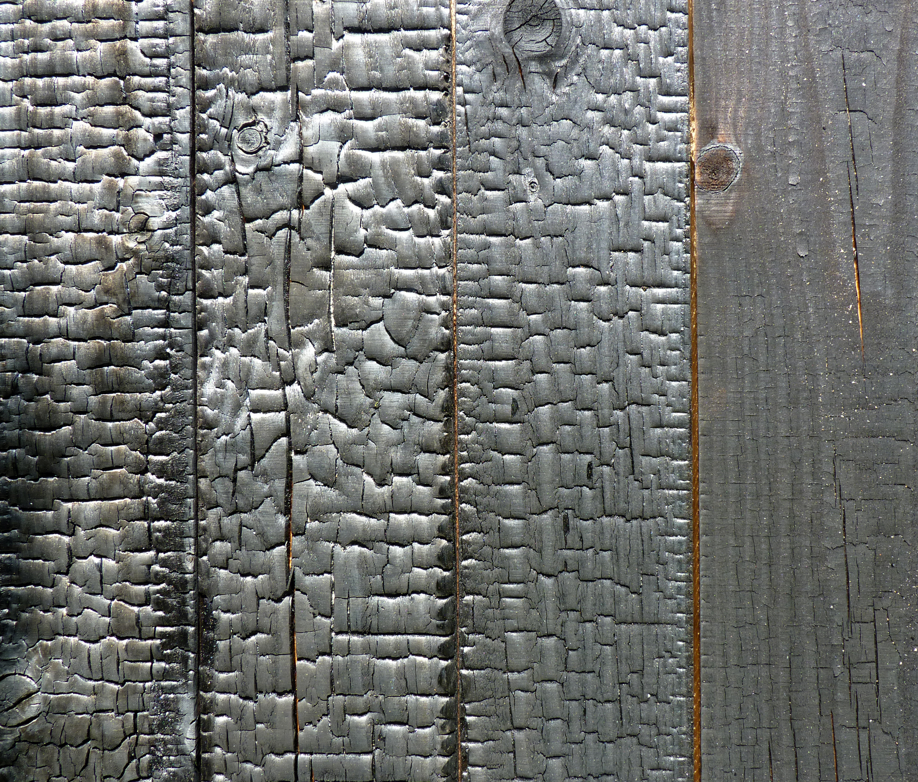 shou-sugi-ban traeated wood, yakisugi, charred wood